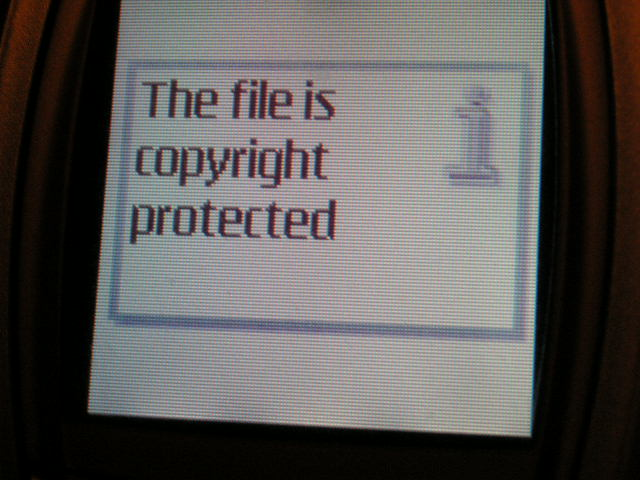 Photograph of a Nokia 6810 showing copy protection notice